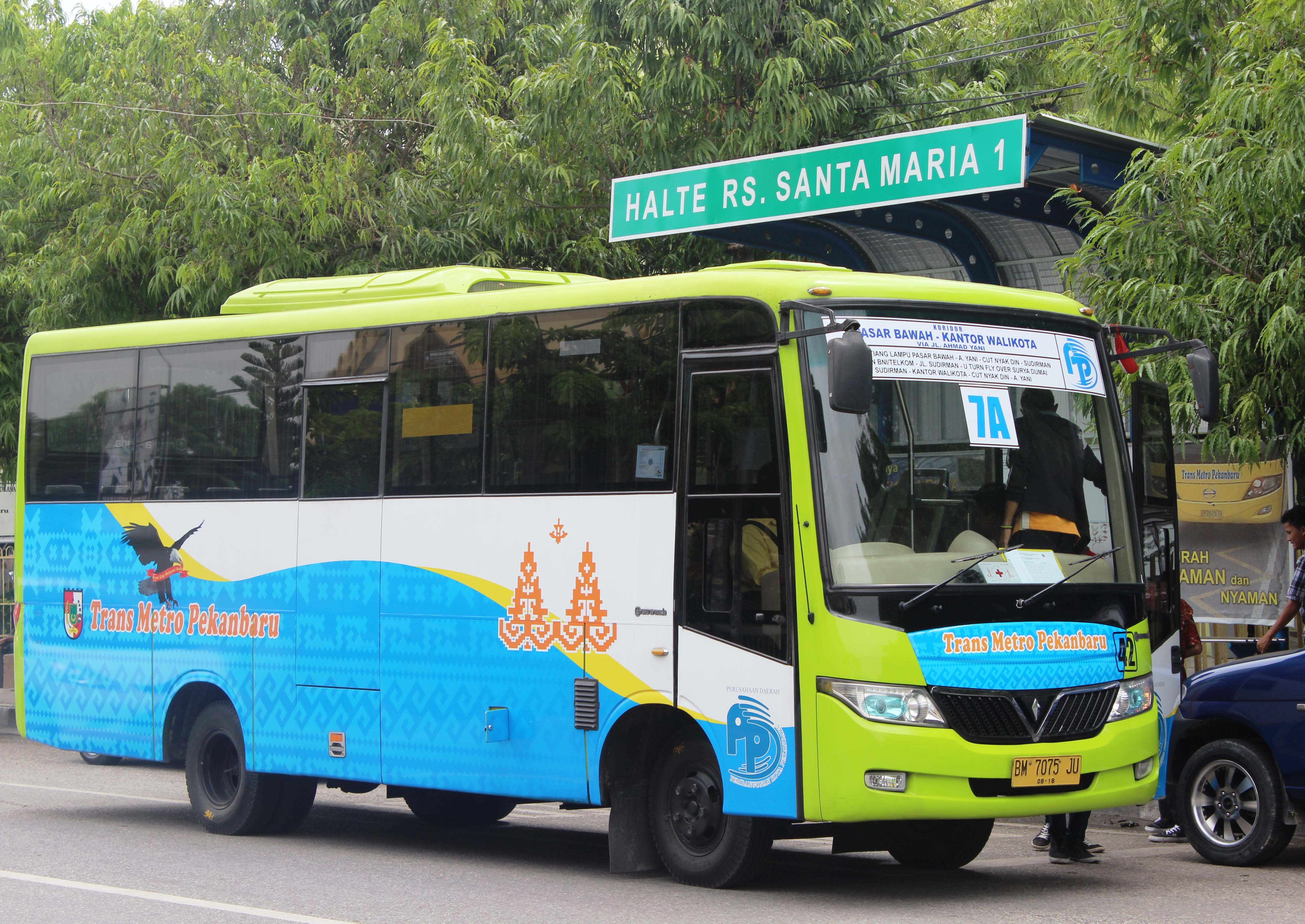 A Trans Metro bus in Pekanbaru, Indonesia.